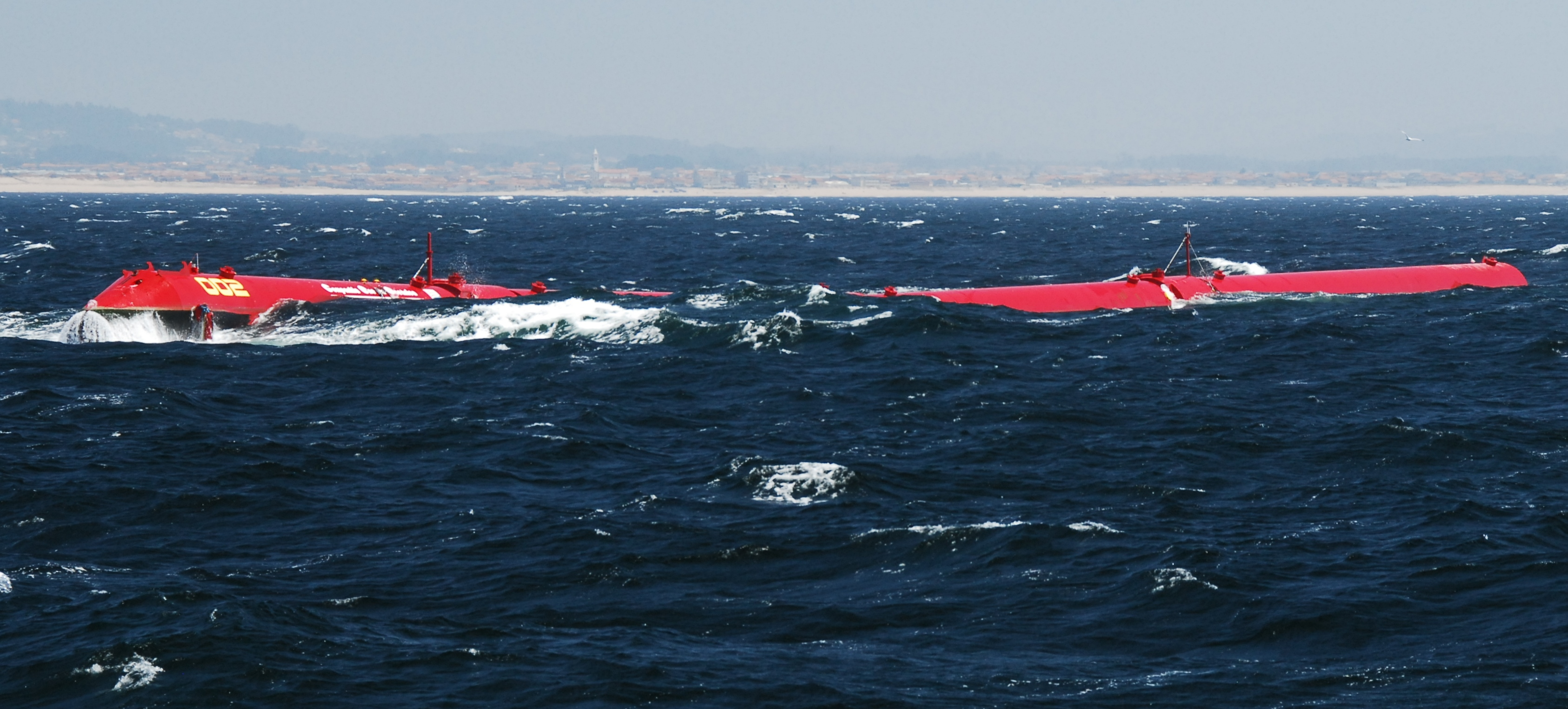 A Pelamis installed at the Agucadoura Wave Park off Portugal